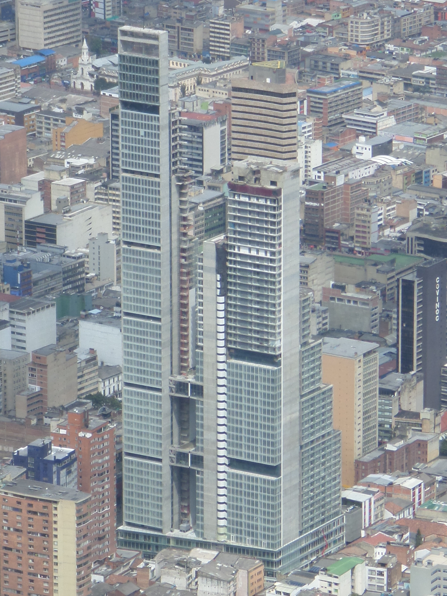 gggggggg